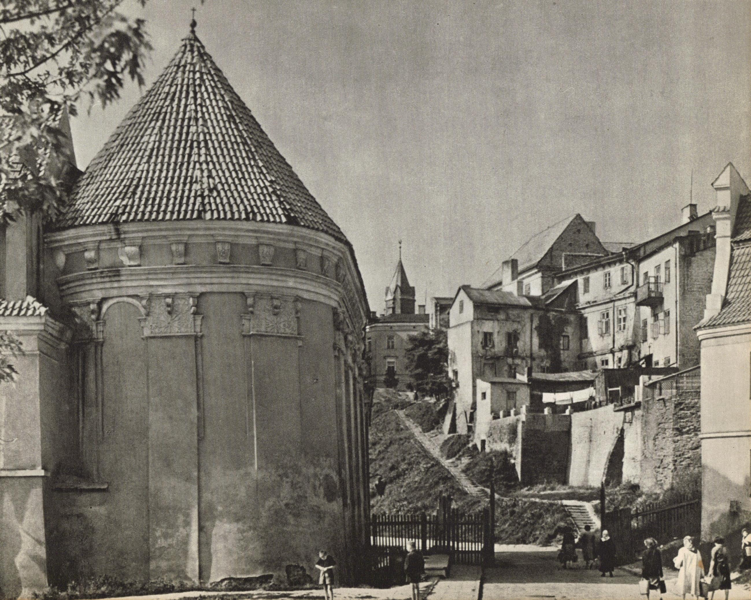 St Adalbert's church in Lublin in 1964